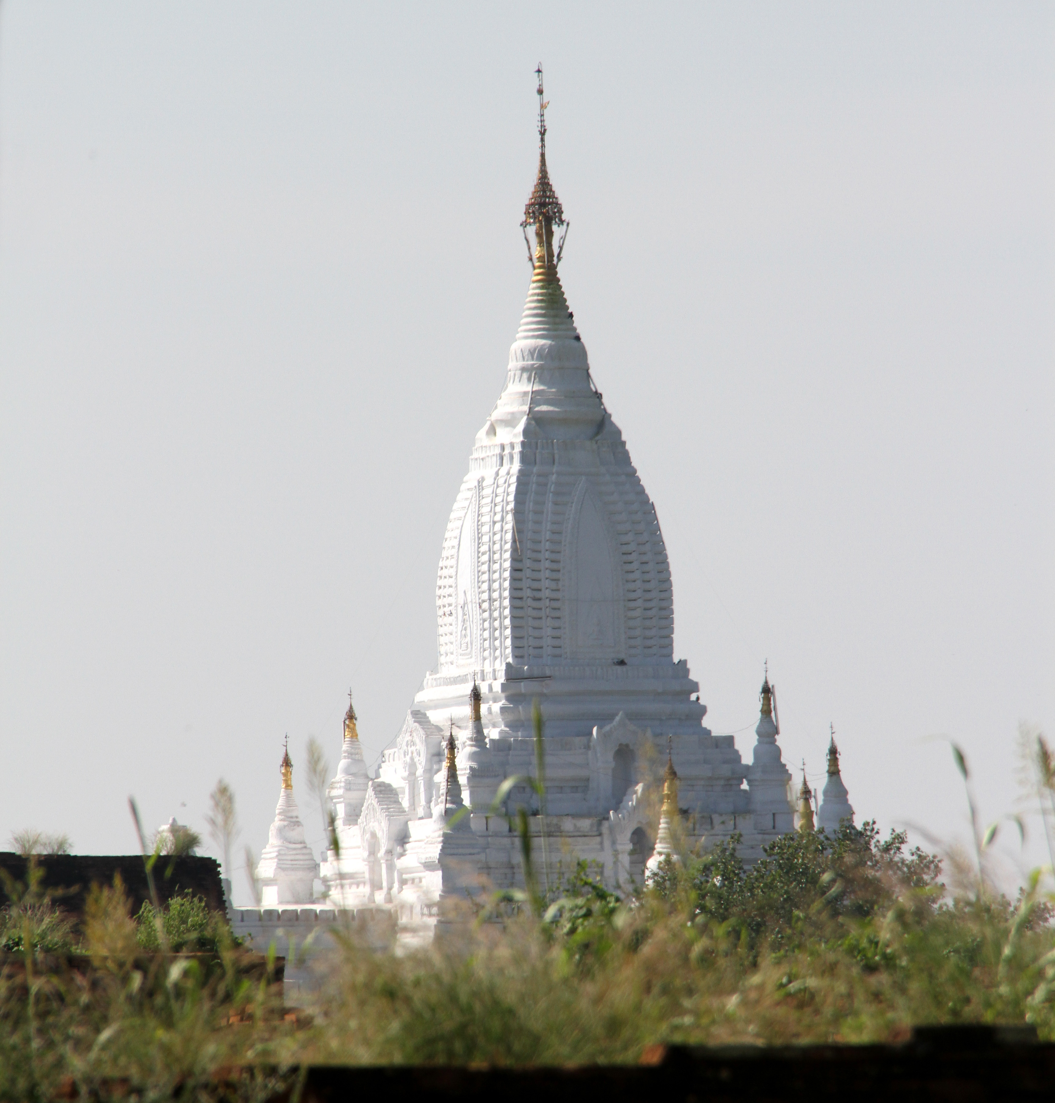 Lemyethna temple in Bagan, Myanmar.